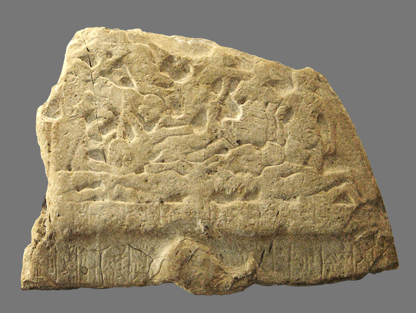 One fragment of the victory stele of the king Eannatum of Lagash over Umma, called « Stele of Vultures ». Historical side. Limestone, circa 2450 BC, Sumerian archaic dynasties. Found in 1881 in Girsu (now Tello, Iraq), Mesopotamia, by Édouard de Sarzec.